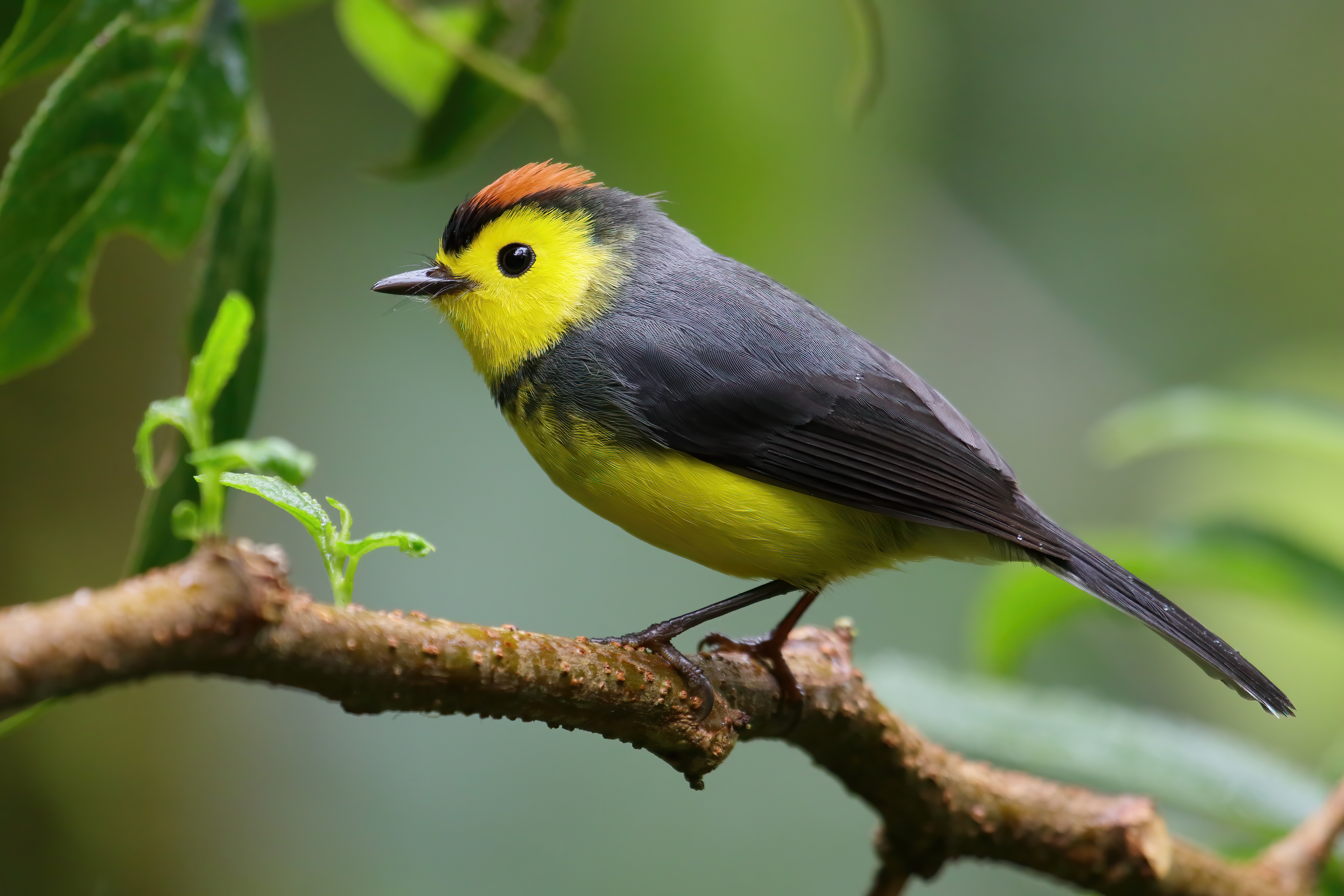 Collared whitestart, Monteverde Cloud Forest Reserve, Costa Rica